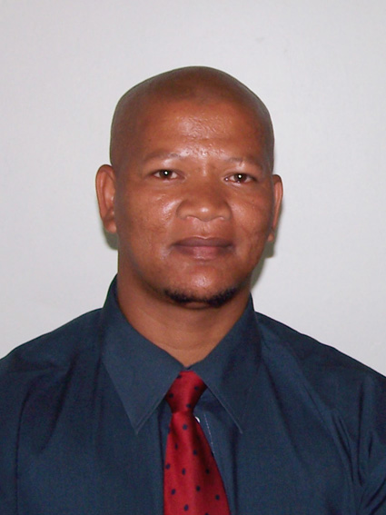 Sammy Claassen is the mayor of the Bergrivier municipality and a member of the Independent Democrats.